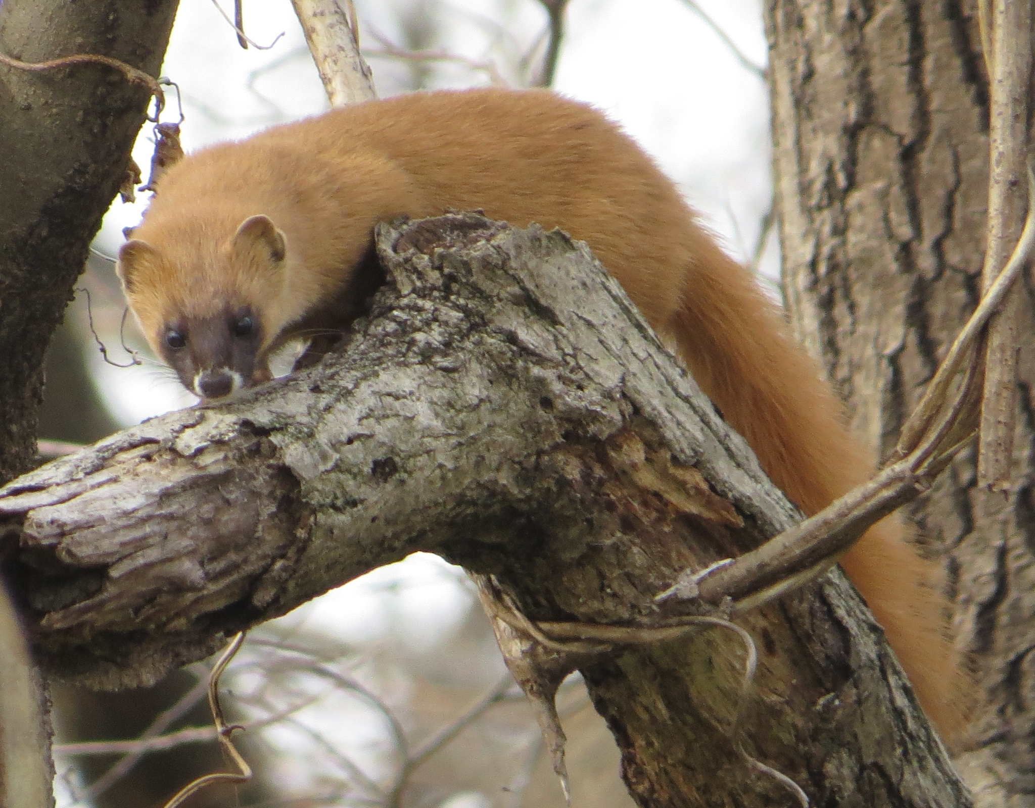 Mustela itatsi (Japanese weasel) on tree in Japan.